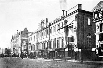 the Moscow Art Theatre in the 19th century